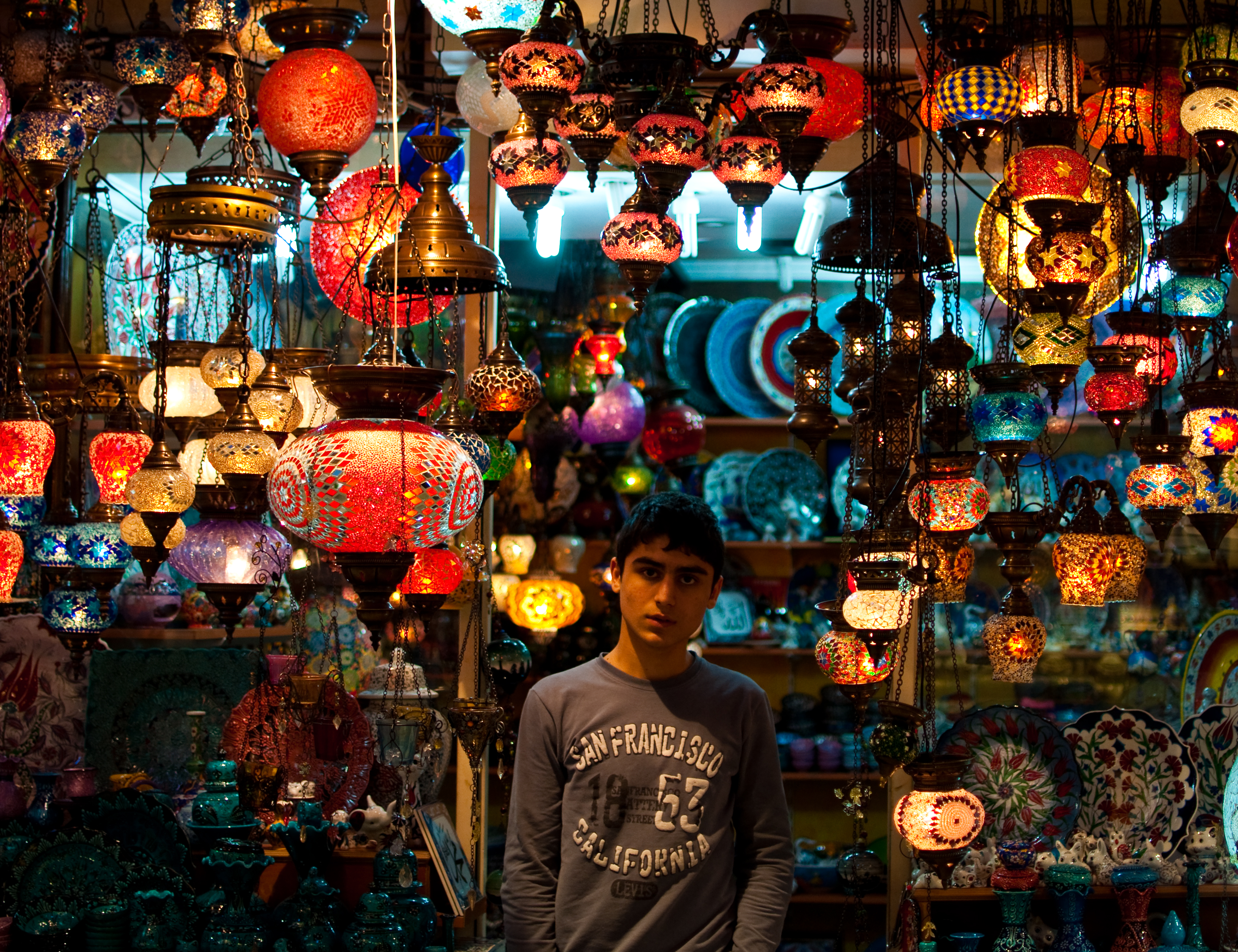 Boy standing in the front of a lantern store in the Grand Bazaar in Istanbul, Turkey.